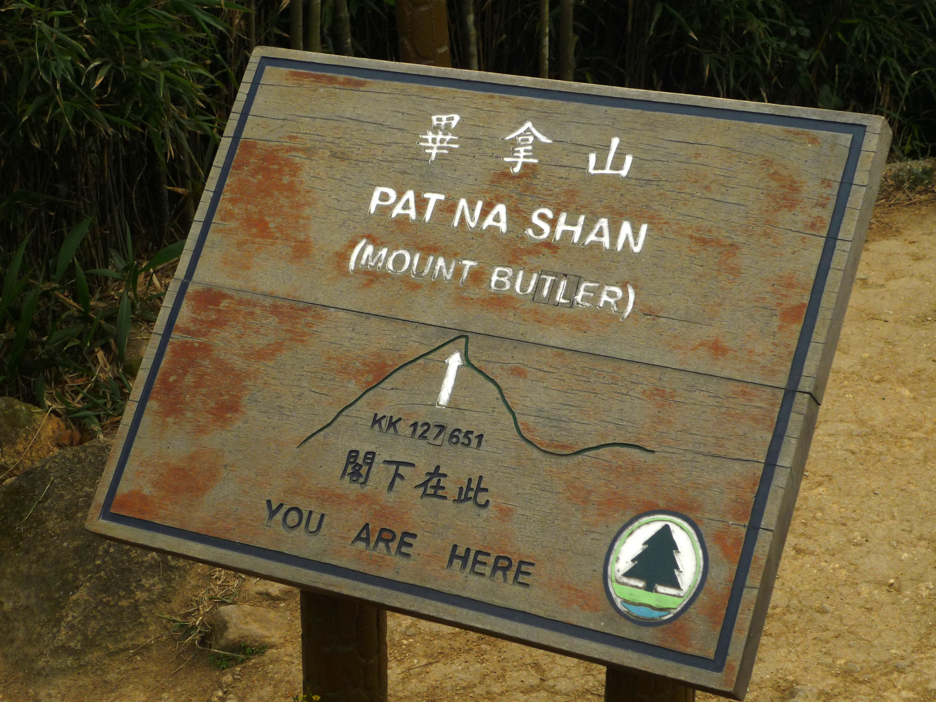 A description board at the peak of Mount Butler